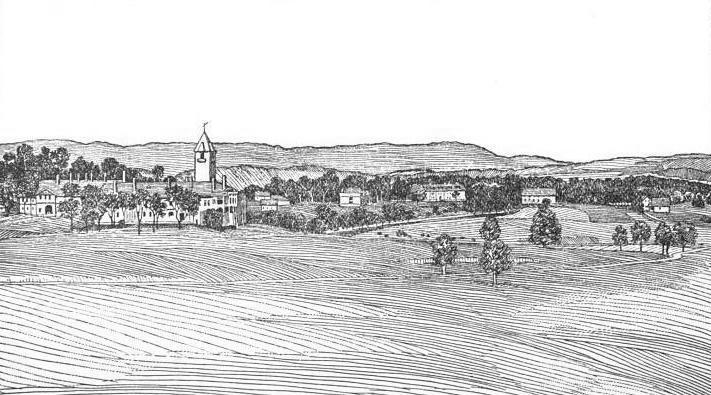 Lincoln Memorial University, near Harrogate, Tennessee, as it appeared circa 1915.